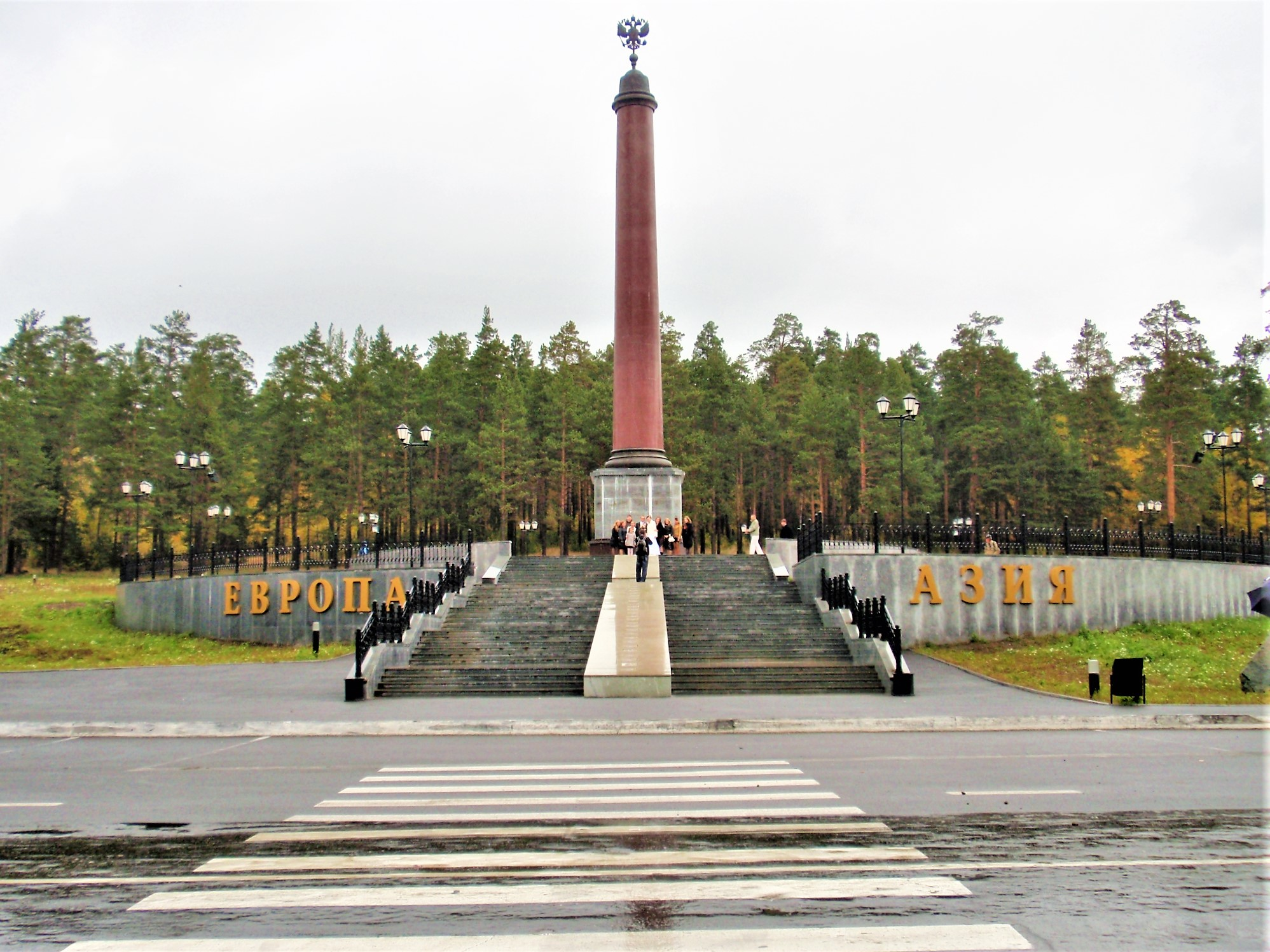 Monument "Europe-Asia": Monument on the border of Europe and Asia. Original monument was built in 1837. Restored in 2003.